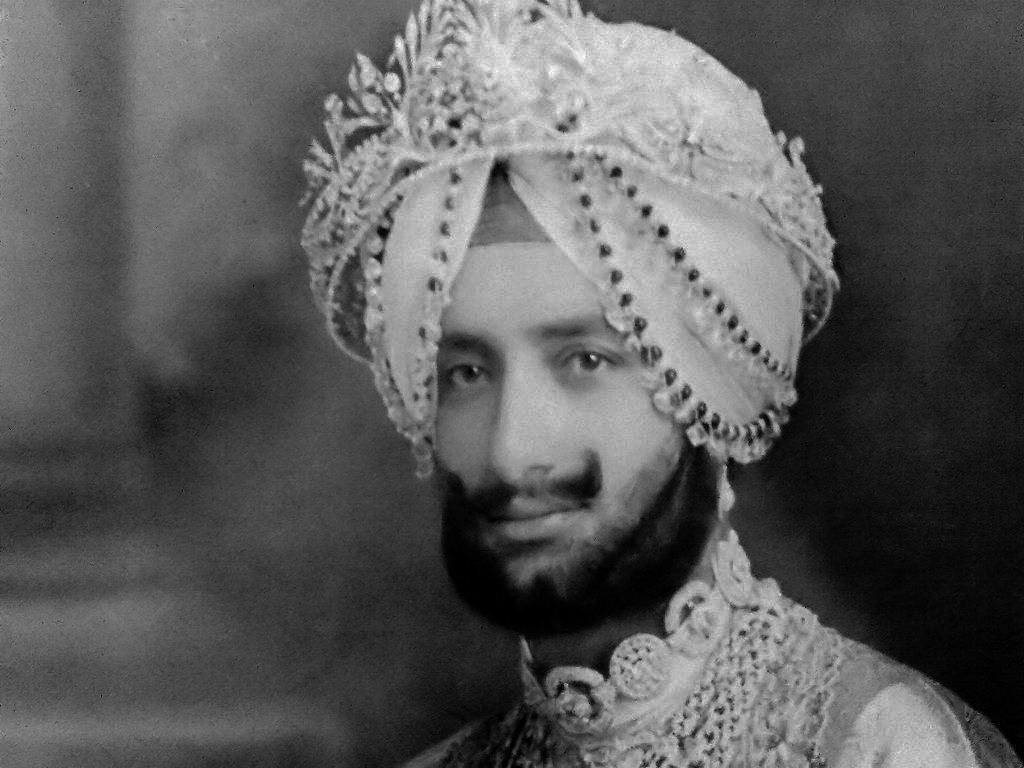 Maharajadhiraj Sir Yadavindra Singh Mahendra Bahadur, GCIE, GBE(Punjabi: ਯਾਦਾਵਿੰਦ੍ਰ ਸਿੰਘ ਮਹੇਨਦ੍ਰ ਬਹਾਦੁਰ; January 17, 1913, Patiala, Punjab – June 17, 1974, The Hague, Netherlands) was Maharaja of Patiala from 1938 to 1974. Moreover, he was an Indian cricketer who played in one Test in 1934. Maharaja Yadavindra attended Aitchison College, Lahore